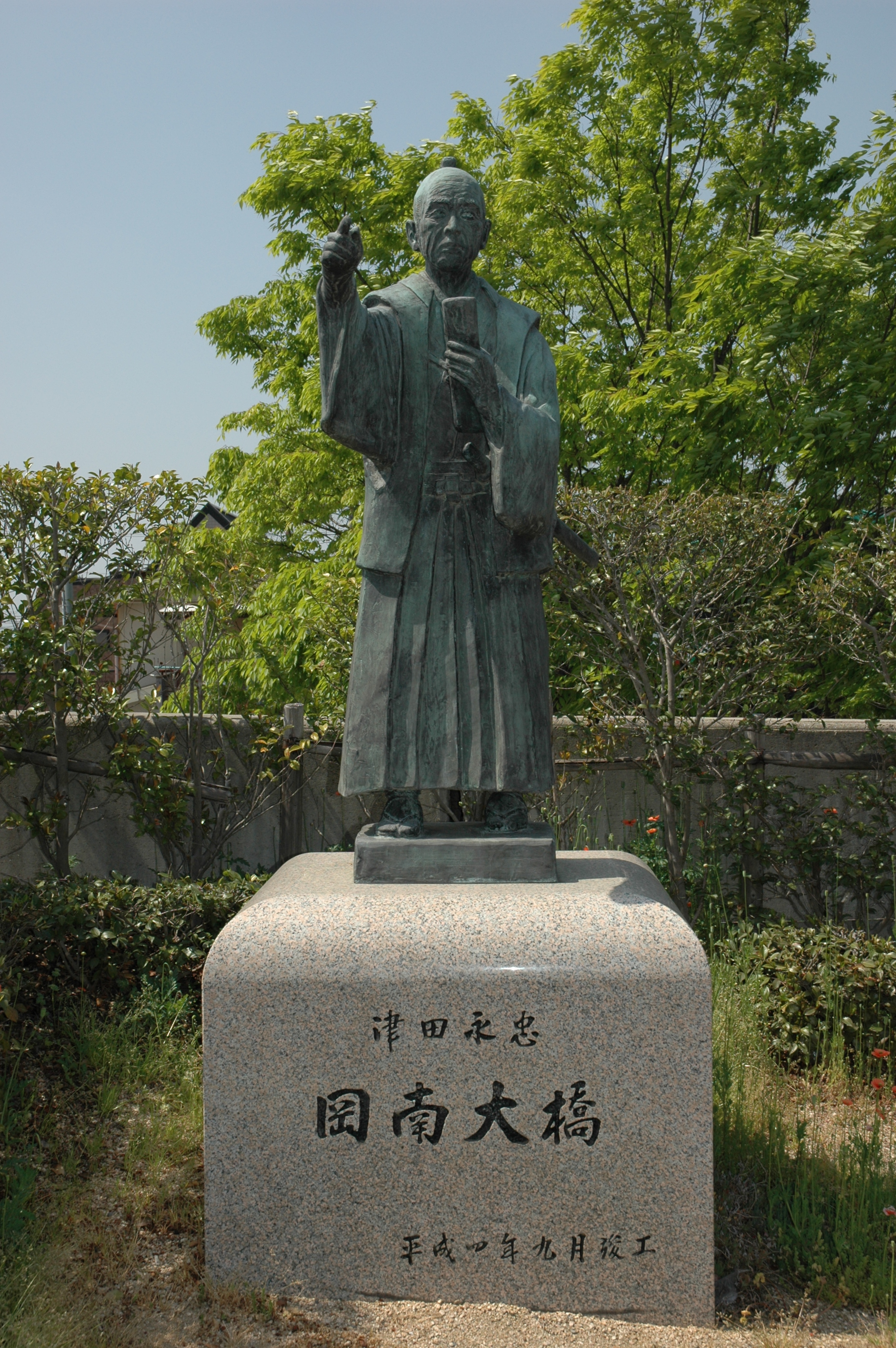 statue of Tsuda Nagatada at Kōnan Bridge in Naka-ku, Okayama city